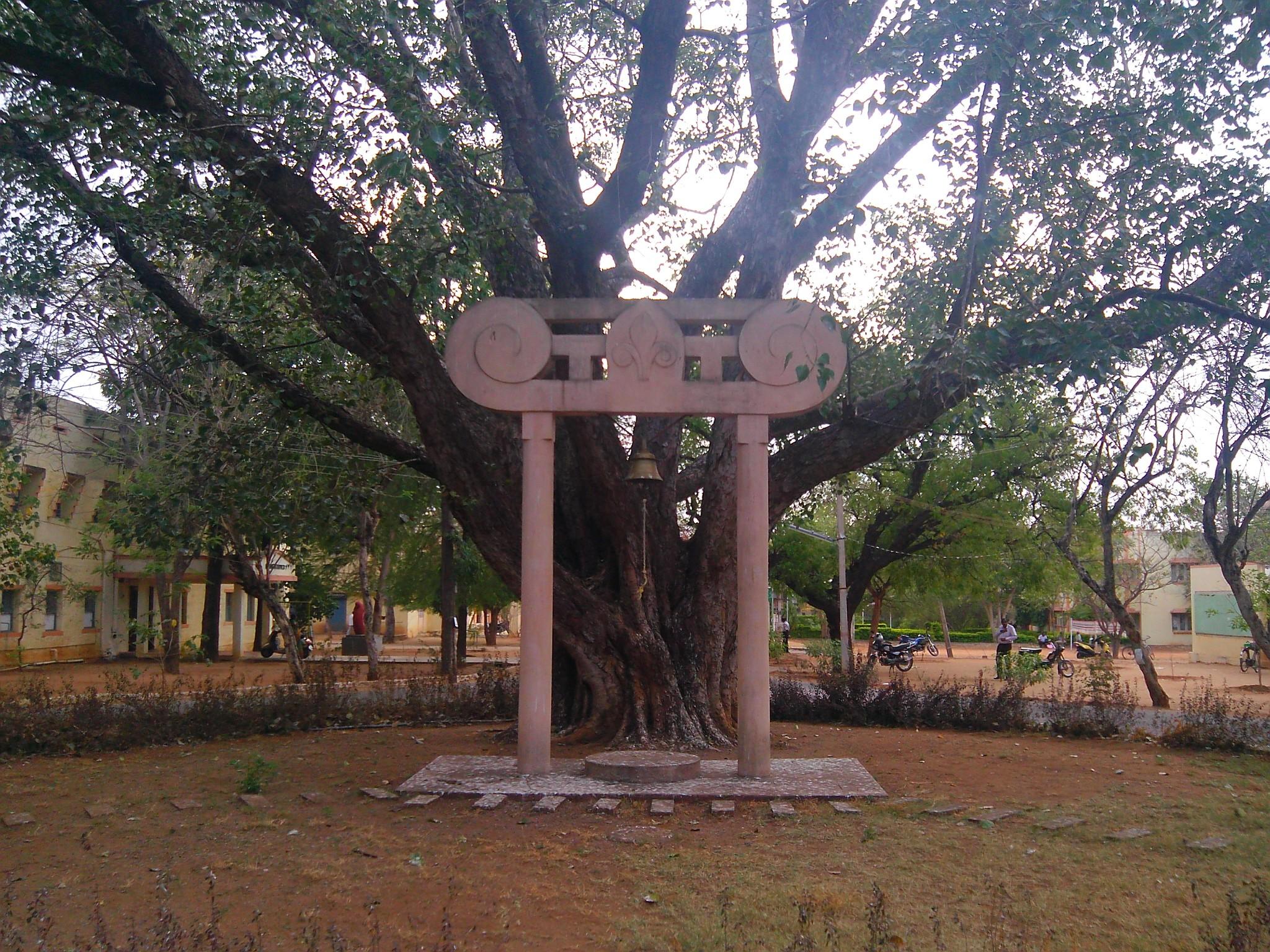 Stone works at Gandigram Rural Institute